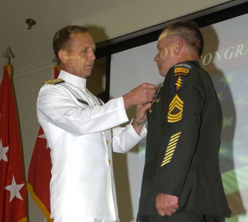 Admiral Olson presenting the Distinguished Service Cross of MSG O'Connor